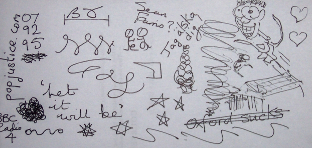 Just a random doodle. Featuring: BBC Radio Four Popjustice Sean Farris [sic] "Let It Will Be" Oxford "Jag älska dig"